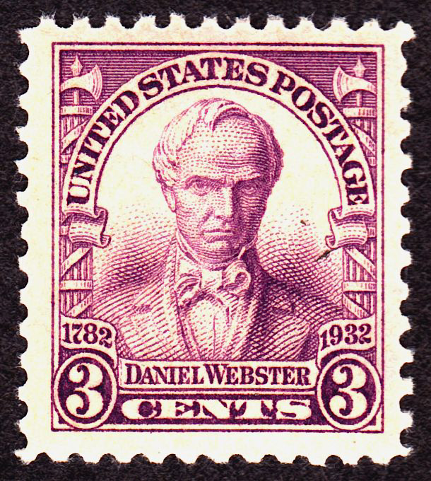 US Postage stamp of Daniel Webster issue of 1932, 3c.